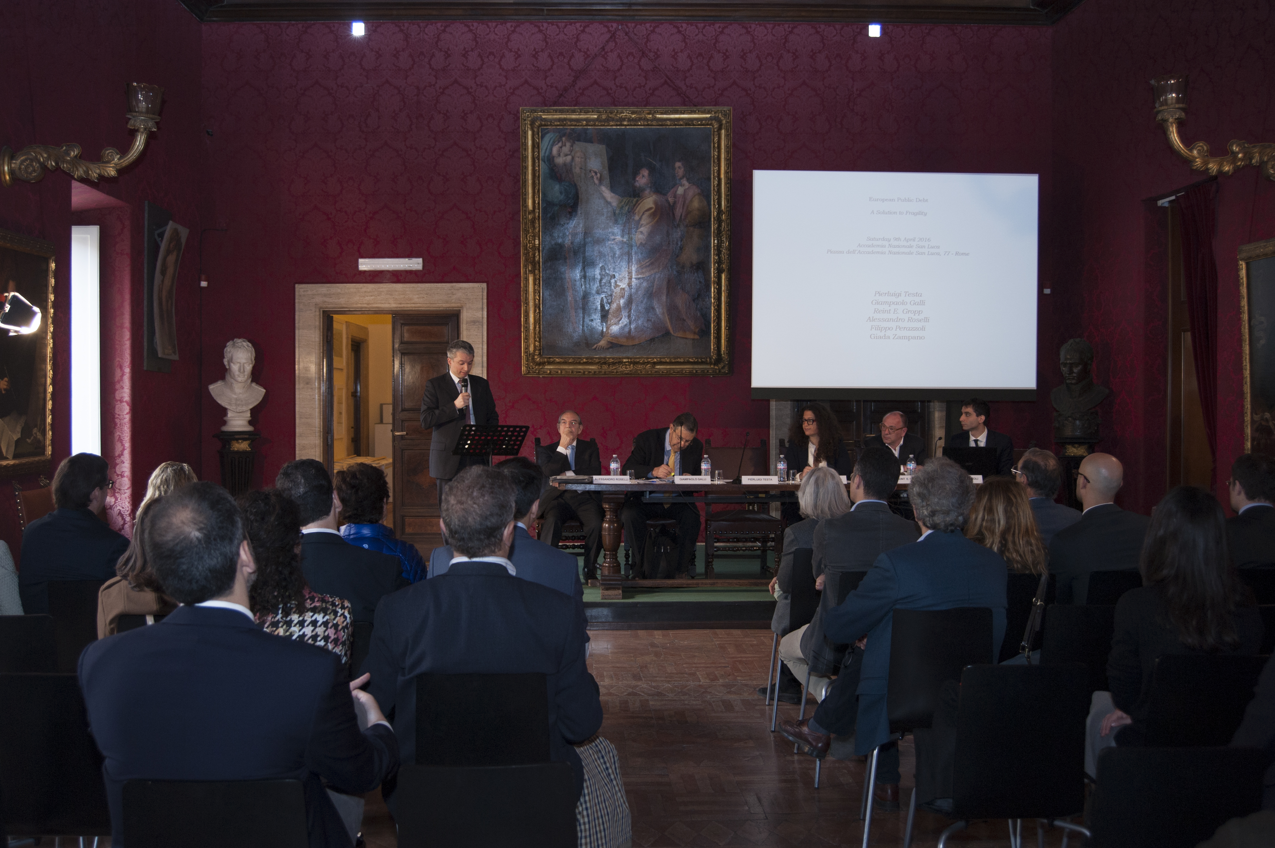 Workshop "European Public Debt - A Solution to Fragility" organized by 'Trinita' dei Monti' Think Tank Saturday 9th April 2016 Accademia Nazionale San Luca - Rome, Italy